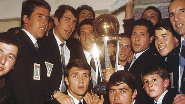 Racing Club players posing with the Intercontinental Cup won v. Celtic FC Glasgow.